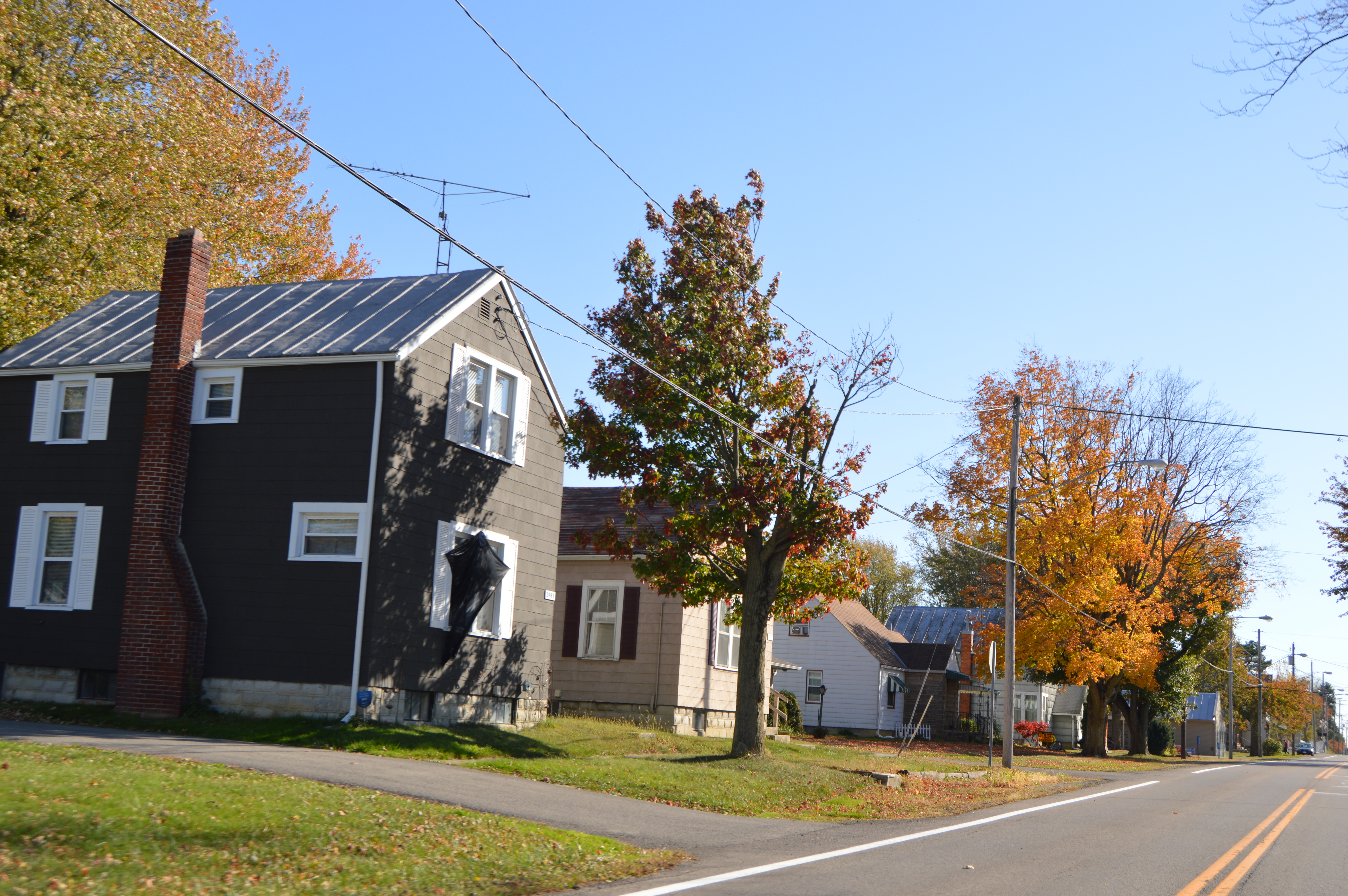 Houses on the eastern side of Main Street (State Route 602) south of the Caskey Street intersection in North Robinson, Ohio, United States.